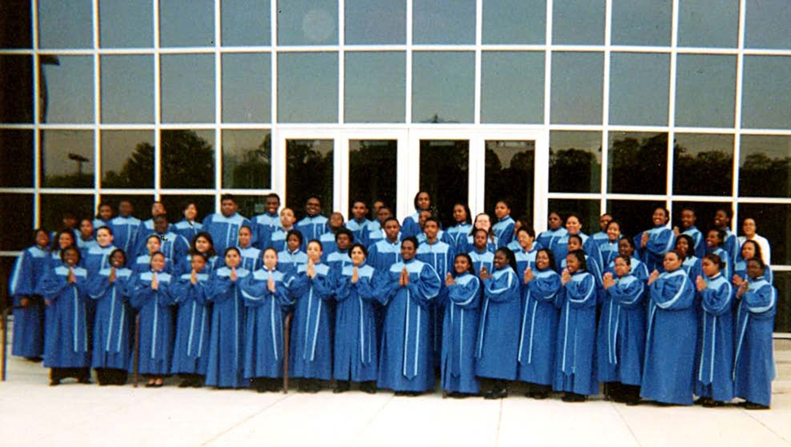 The Northwestern High School Gospel Choir